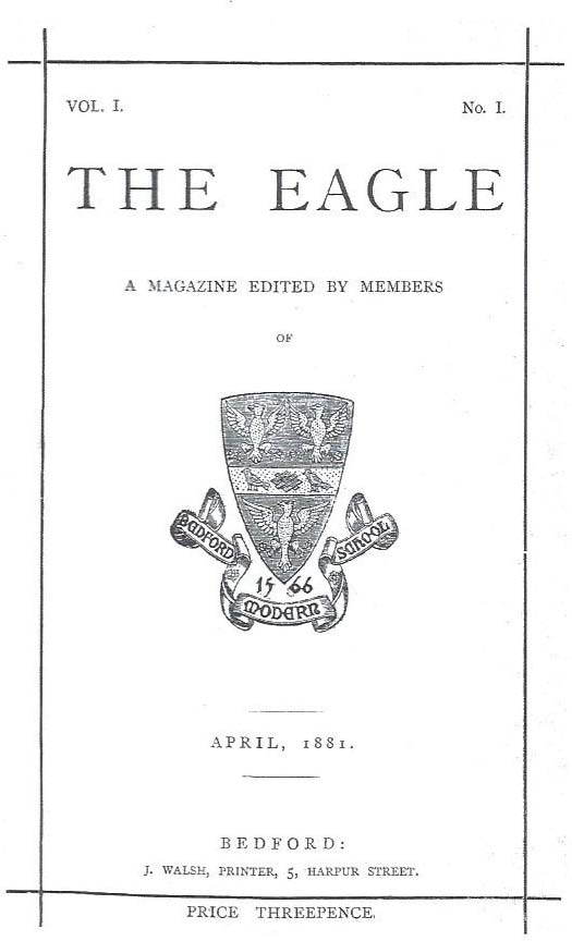 The first edition of The Eagle, Magazine of Bedford Modern School